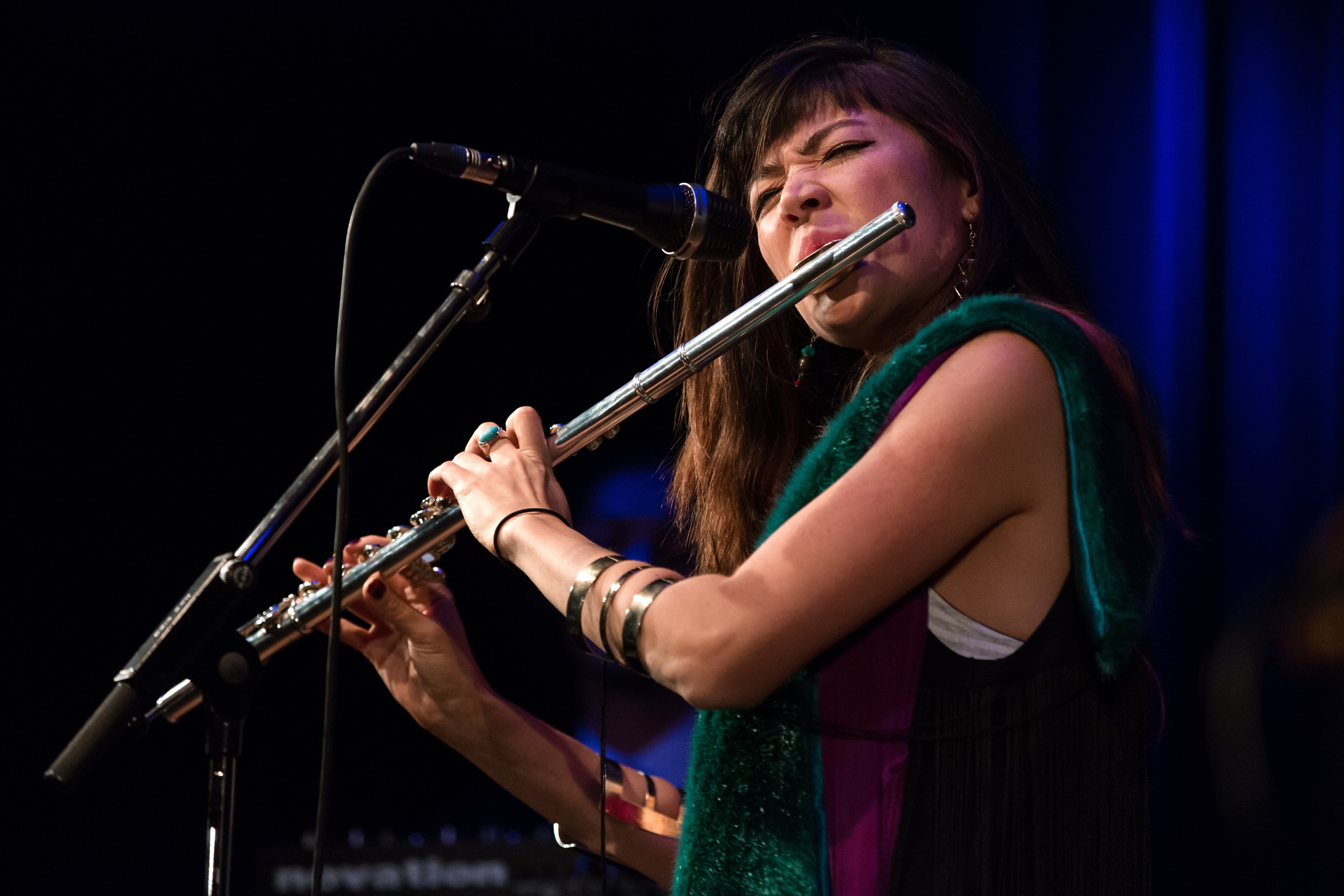 Maïa Barouh, concert at the festival Waves Vienna 2015 (Haus der Musik, Vienna, Austria).